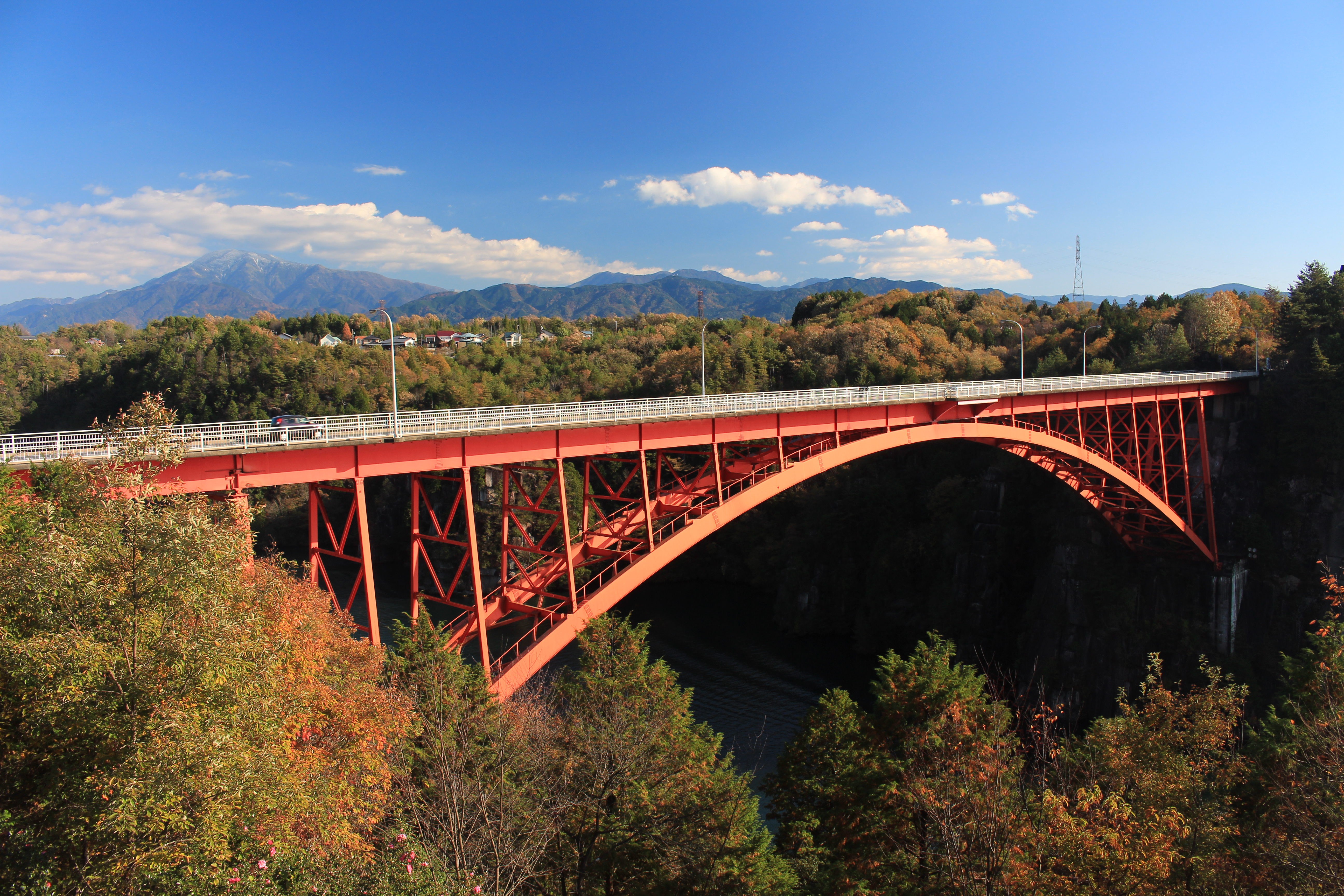 Enakyo Bridge on Kiso River and Mount Ena, in Nakatsugawa, Gifu prefecture, Japan.